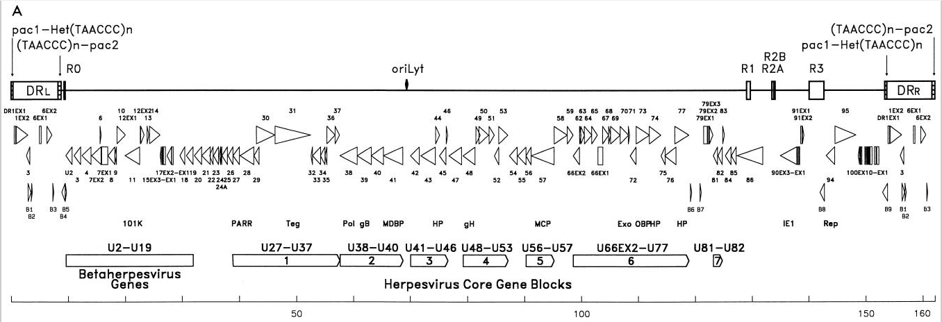 Genomic map of HHV-6B.